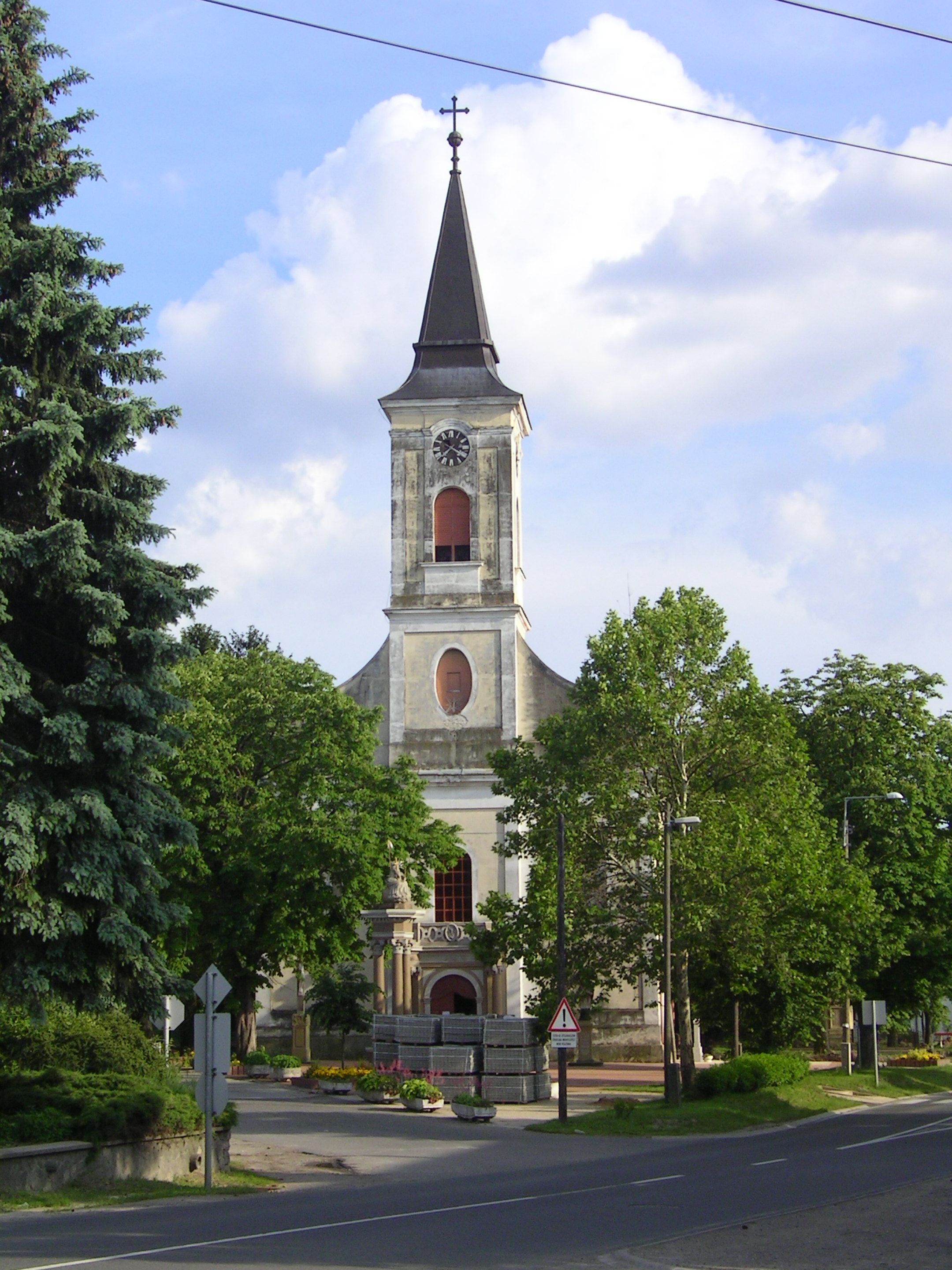 Roman catholic church in Dunaszekcső, Hungary